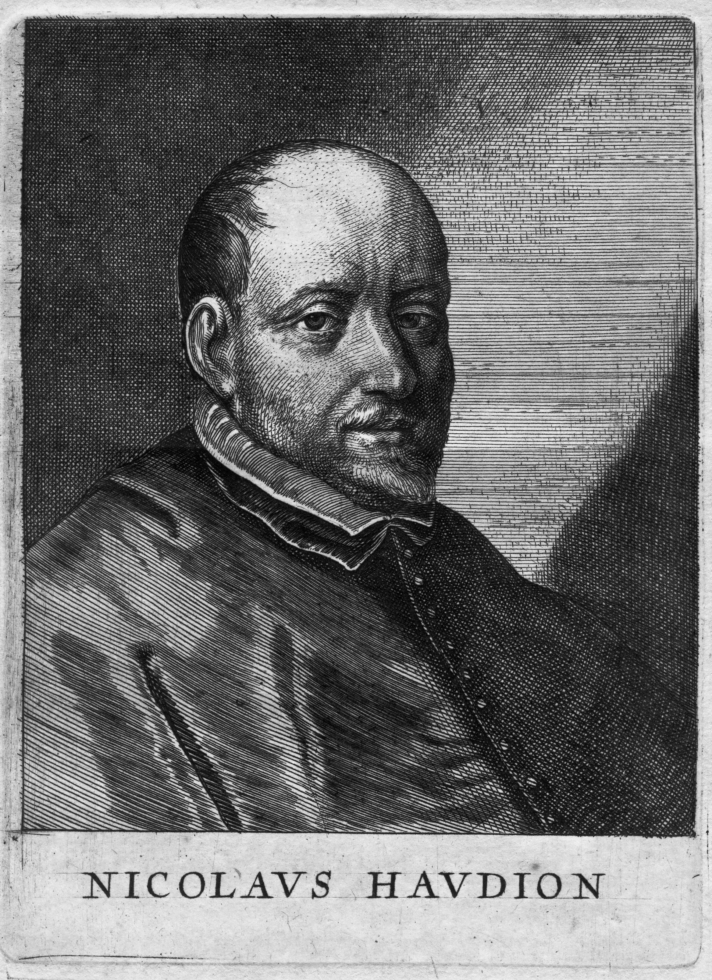 Nicolaas de Haudion, 8th bishop of Bruges (Belgium). Etching from: A. Sanderus, Flandria Illustrata, 1641-1644.